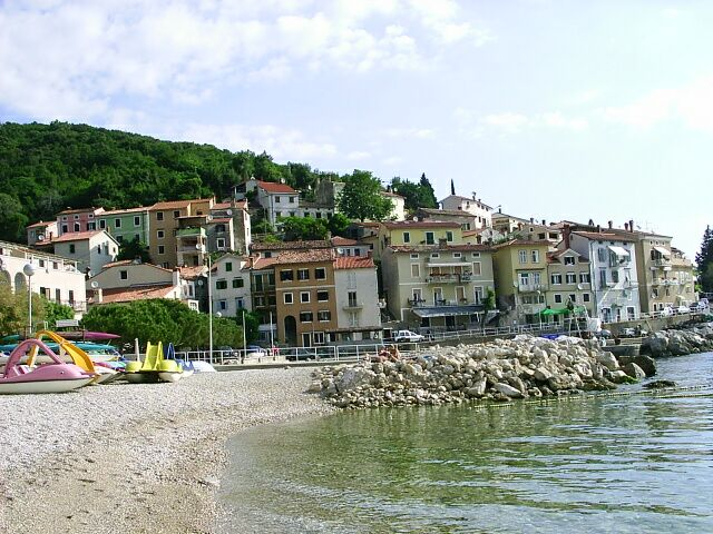 Nature and countryside of the Istria peninsula in Croatia